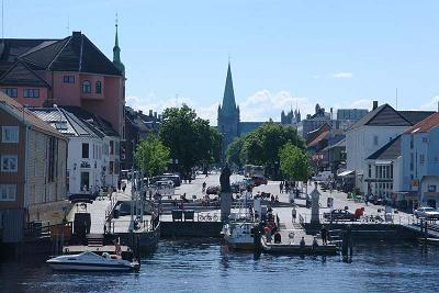 Trondheim